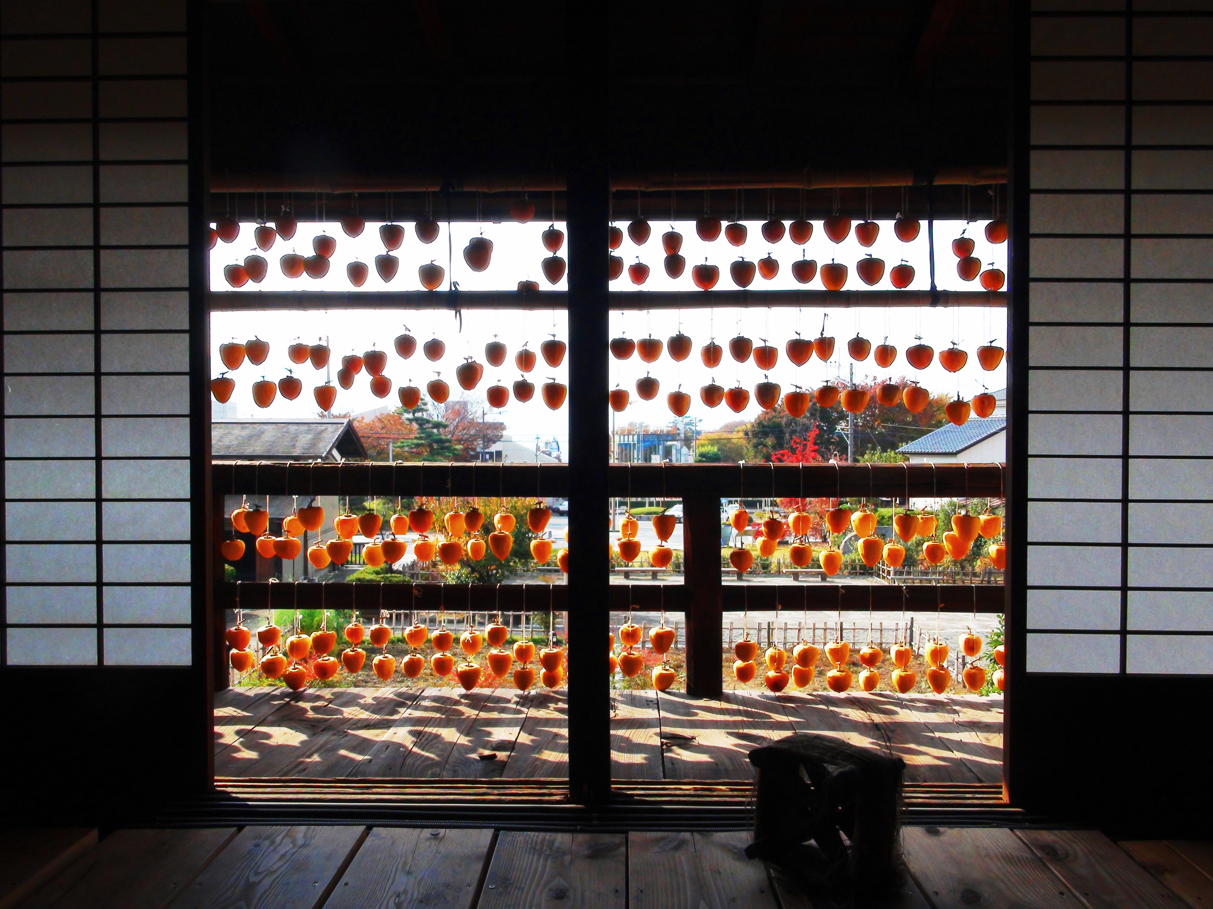 Dried persimmons at Kanzo yashiki (lit.licorice house), Koshu city, Yamanashi, Japan